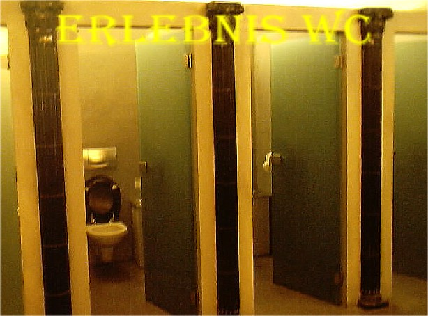 Public WC in Berlin: Restaurant Tucher am Tor.